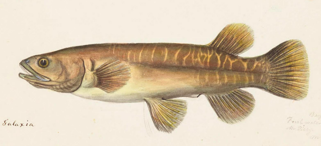 Drawing by Joseph Drayton of a Galaxias fasciatus (Banded kokopu) found in fresh water near Mr Tibby's in the Bay of Islands, New Zealand March 1840. United States Exploring Expedition 1838-1842